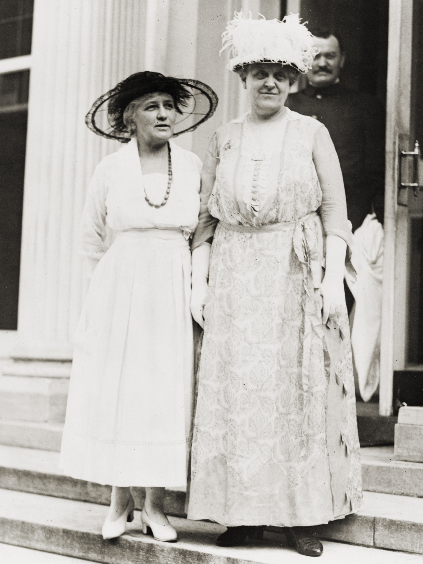 American feminist leaders Helen Gardener and Carrie Chapman Catt leaving the White House.